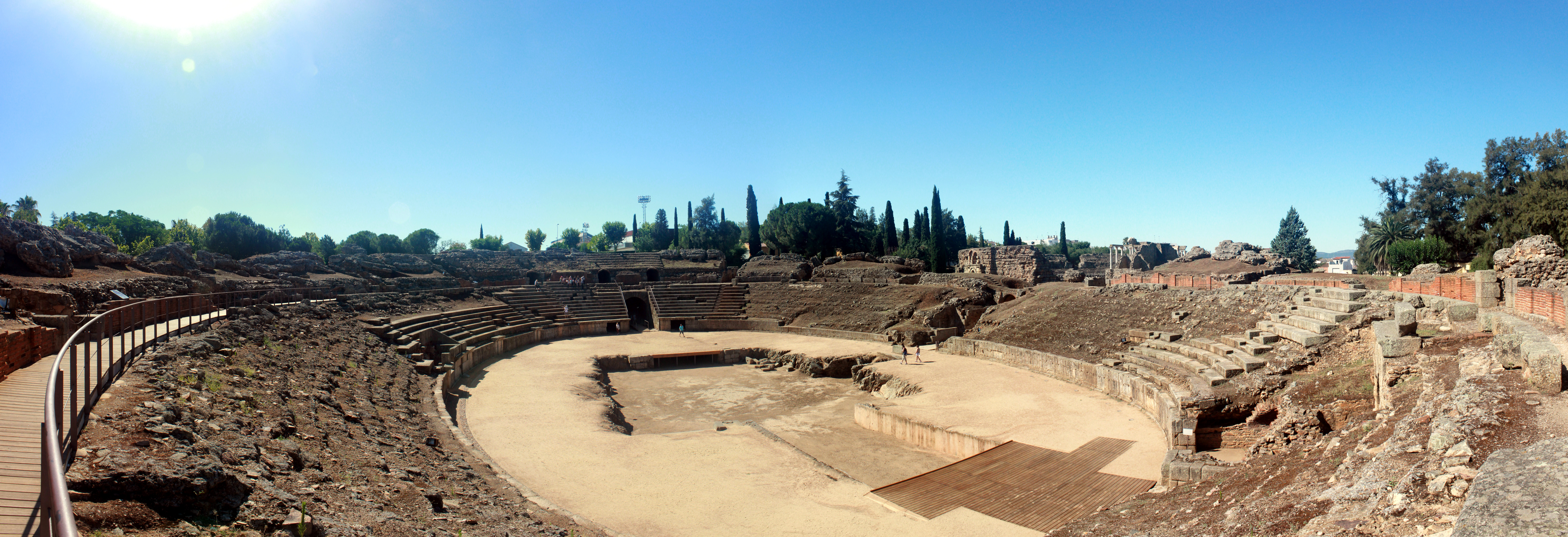 Panoramic of the anfitheater of Mérida, Spain.